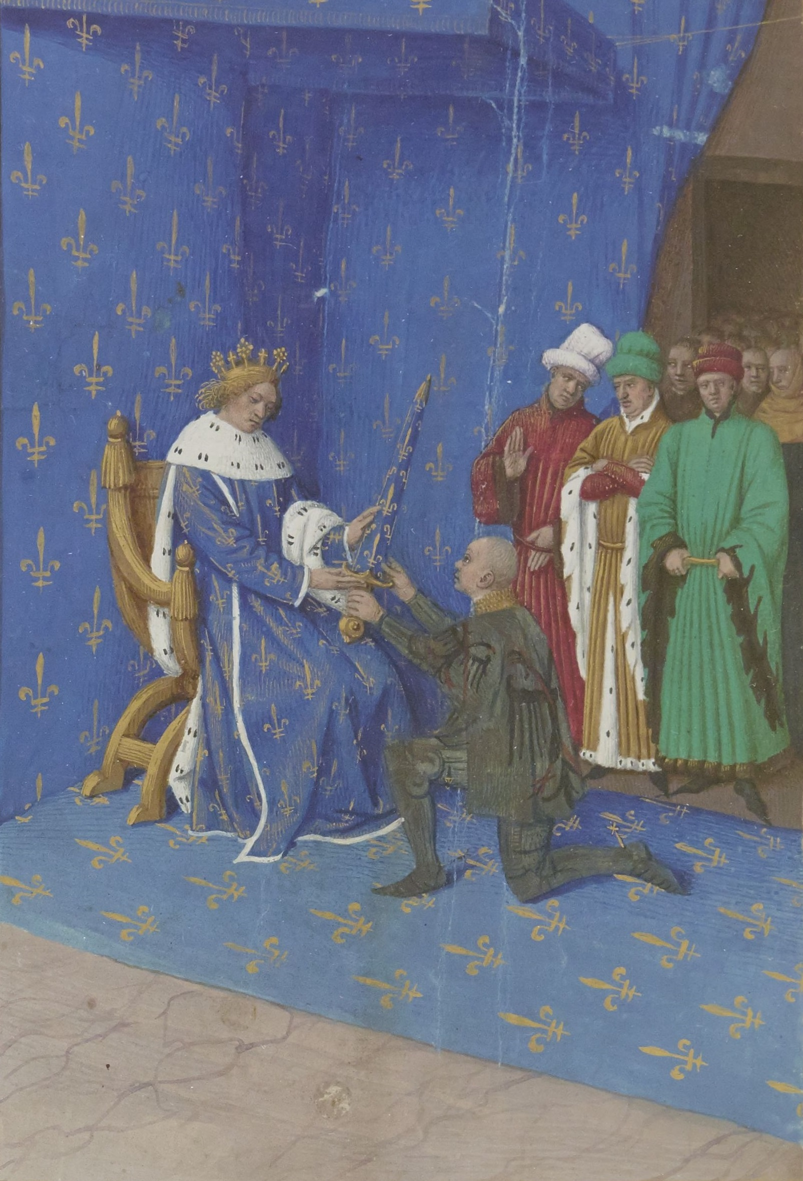 2 October 1369 - Charles V of France presents the sword Joyeuse to the Constable Bertrand du Guesclin; miniature by Jean Fouquet.